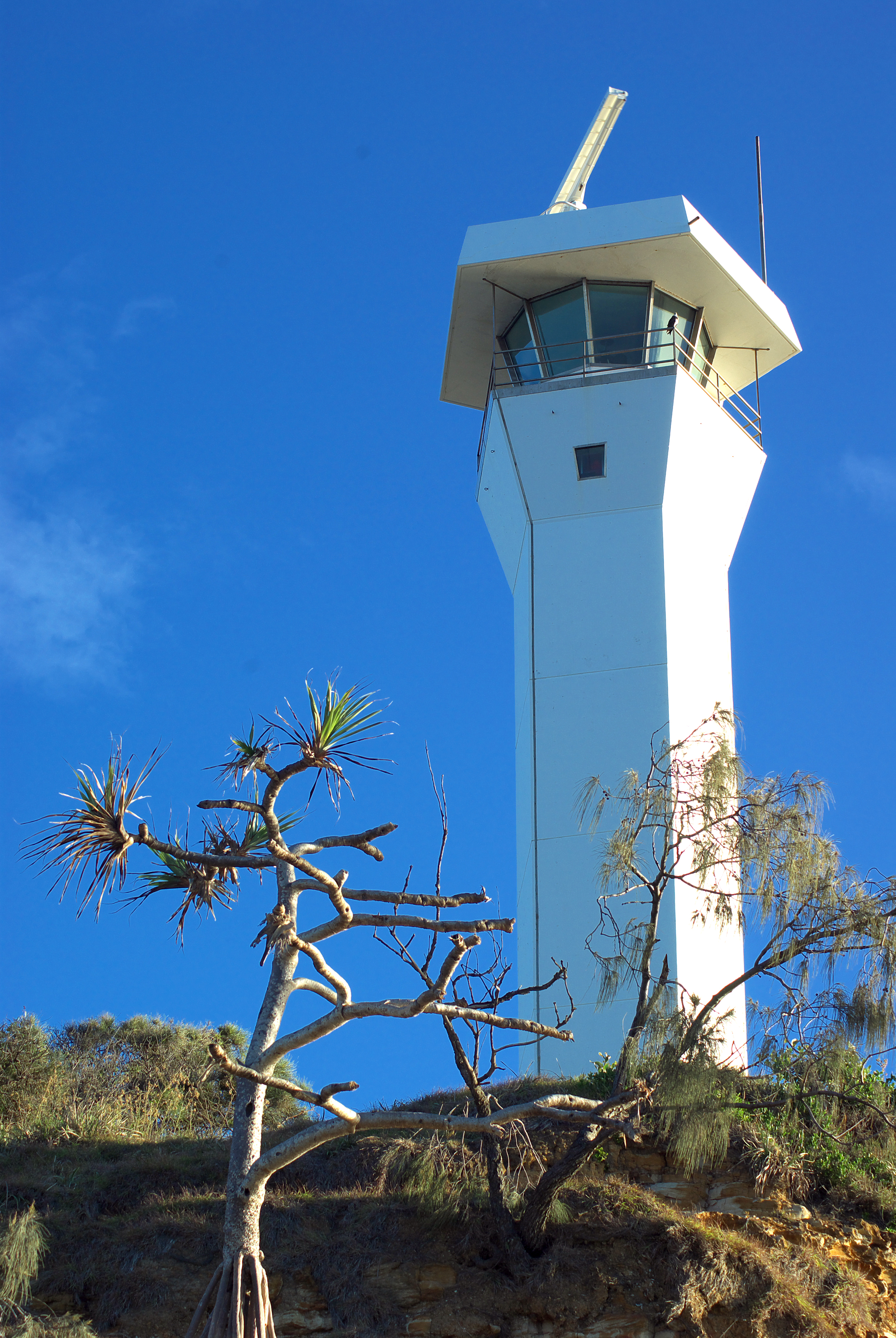 Point Cartwright Lighthouse In the Afternoon Sun